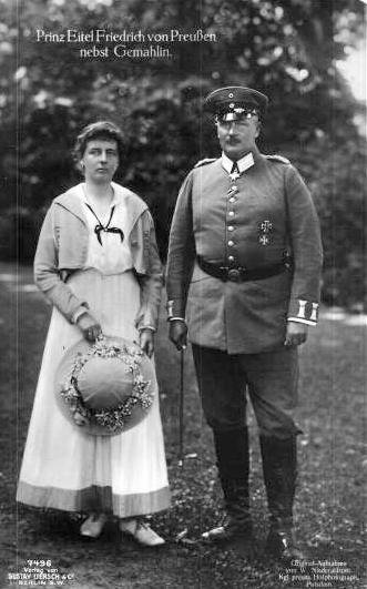 Postcard showing Princess Sophie Charlotte with her then husband Prince Eitel Friedrich of Prussia (divorced in 1926)